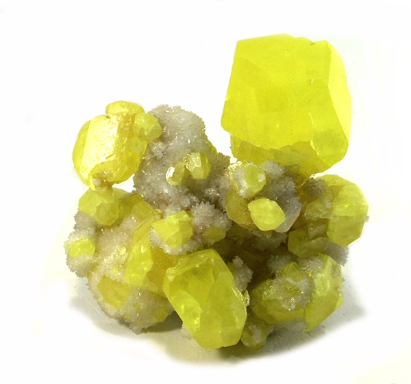 Aragonite, Sulphur Locality: Agrigento (Girgenti), Agrigento Province, Sicily, Italy (Locality at ) Size: small cabinet, 7.1 x 6.1 x 3.4 cm Sulfur on Aragonite Have you noticed how hard it is to find a great sulfur specimen, today? The Sicilian mines have been closed for years and the old pieces, like this one which is particularly fine because of the aesthetic arrangement of crystals, are hard to obtain. It is a fragil emineral and so you assume that many old ones are simply destroyed over time. This one is not only aesthetic, but of superb quality as well: with the wonderful, rich, lemon, color. These sulfur crystals, the largest of which measure 3.0 cm across, are well formed, translucent and lustrous. They color contrast nicely with the underlying druse of white aragonite. This almost pristine specimen is certainly one of the best I have seen recently. AND IT IS MUCH BETTER IN PERSON. There are "decent" sulfurs and then there are truly oustanding specimens. This one, for the size , is outstandign and a worthy part of any serious collection. And the color...also much better in person!